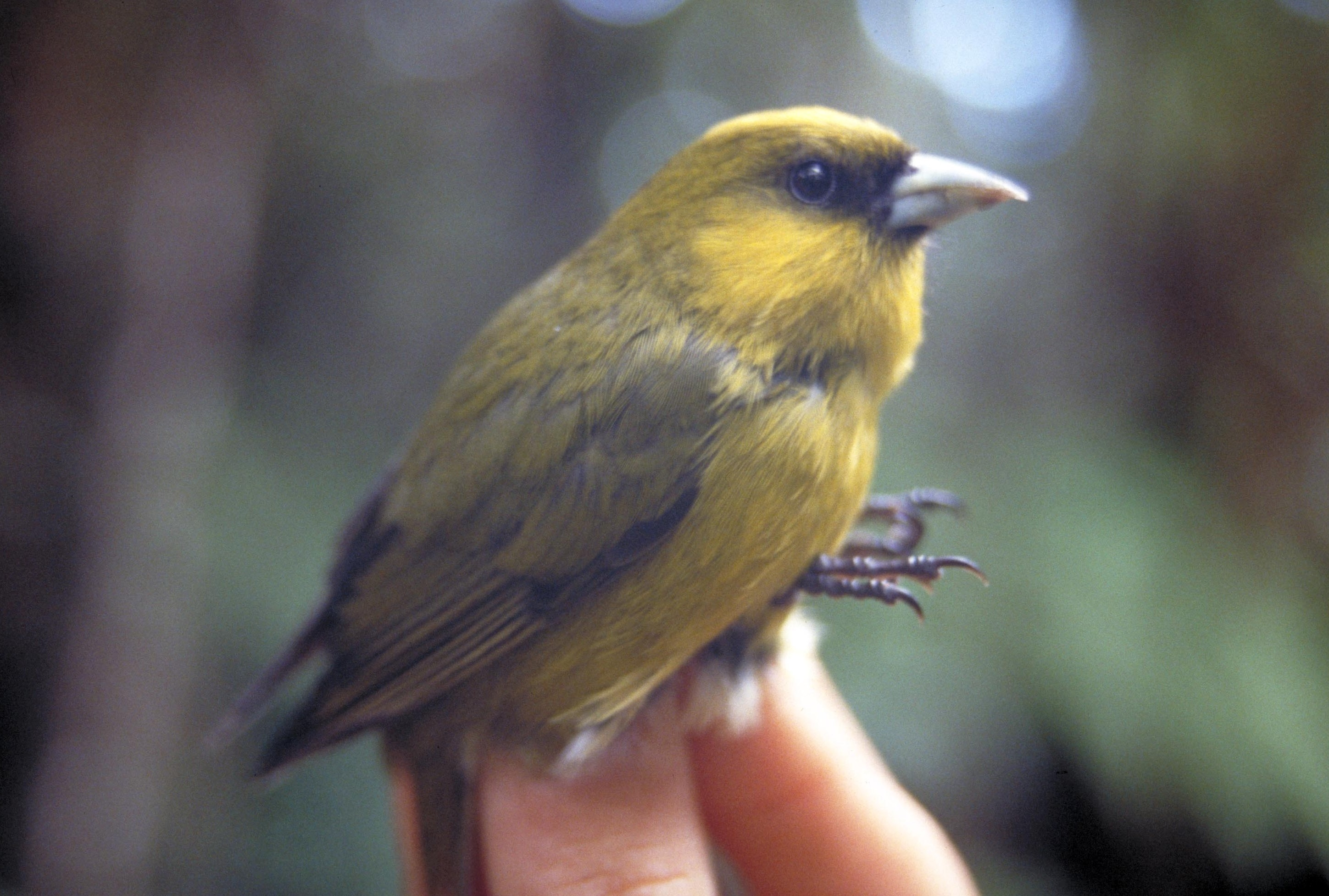 The `Akeke`e or Kauai Akepa (Loxops caeruleirostris), a Hawaiian honeycreeper.